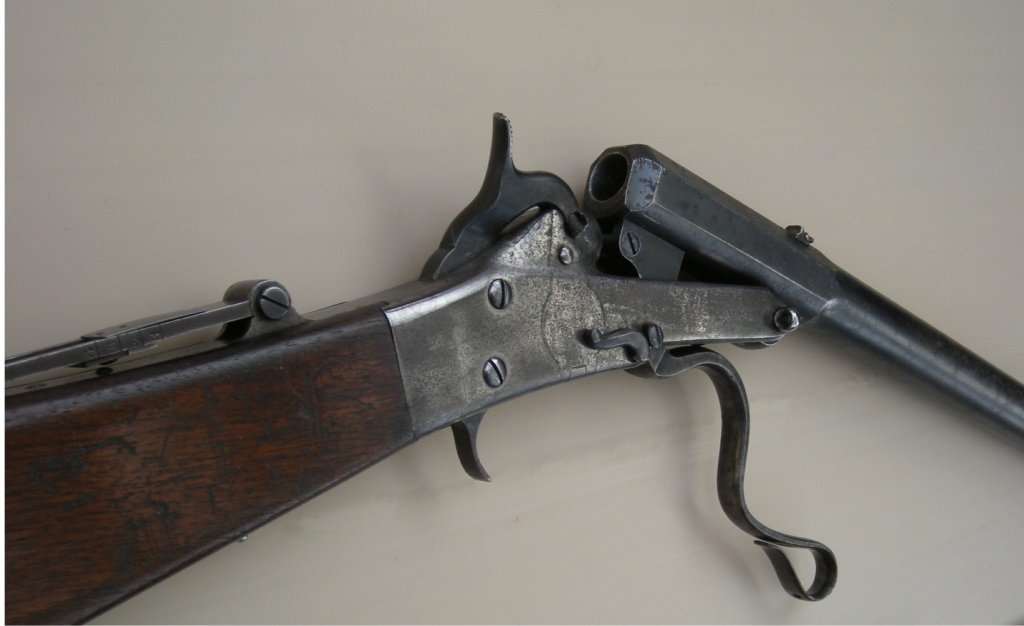 Maynard open